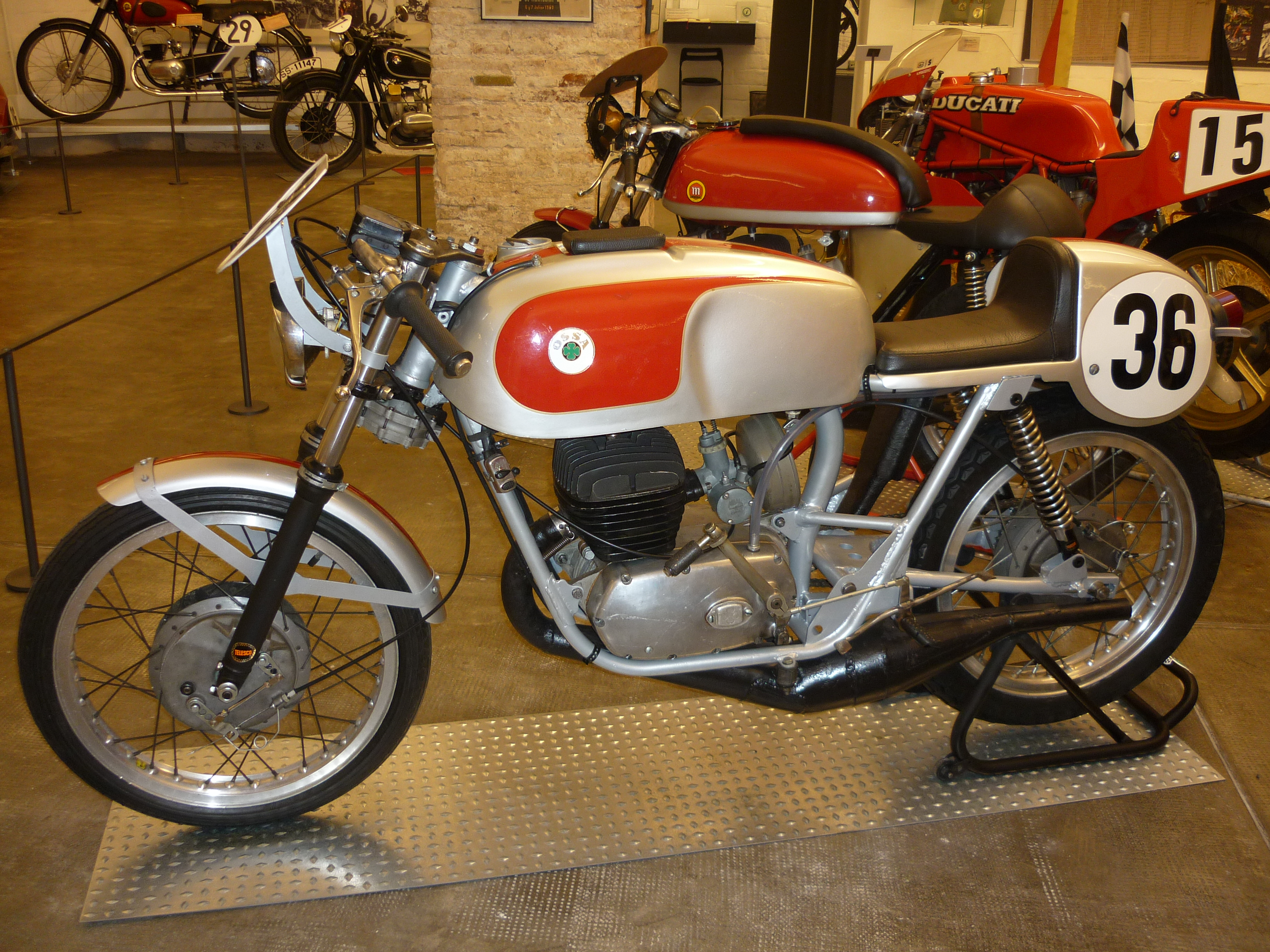 OSSA 230cc. On this bike, Carles Giró and Luis Yglesias won the XIII 24 Hours of Montjuïc, on 1967